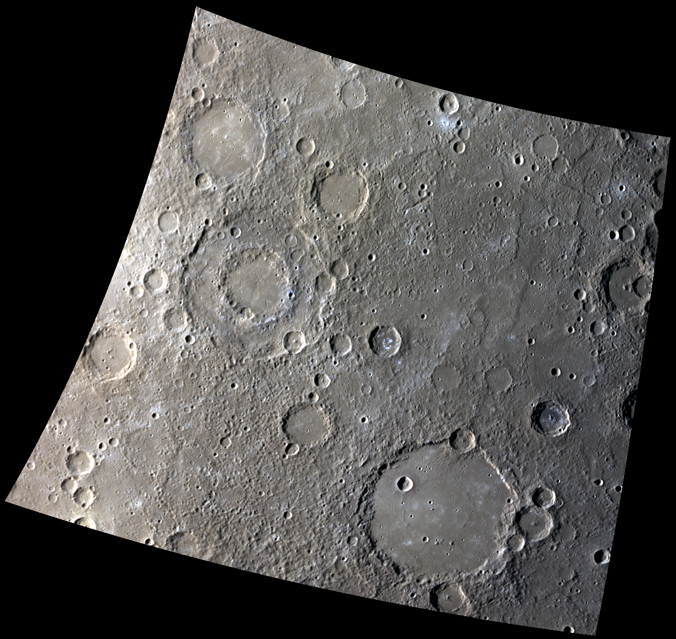 Date acquired: October 31, 2011 Image Mission Elapsed Time (MET): 228589200, 228589220, 228589204 Image ID: 956051, 956056, 956052 Instrument: Wide Angle Camera (WAC) of the Mercury Dual Imaging System (MDIS) WAC filters: 9, 7, 6 (996, 748, 433 nanometers) in red, green, and blue Center Latitude: -37.80° Center Longitude: 303.8° E Resolution: 655 meters/pixel Scale: Scene is approximately 700 km (435 miles) across Incidence Angle: 71.1° Emission Angle: 15.9° Phase Angle: 86.8° Of Interest: Two prominent basins, Chekhov at the upper left and Schubert at lower right, are both just under 200 km in diameter but have very different appearances. Chekhov has a prominent peak ring and its older age is reflected in the numerous craters that have battered its rim and floor. Schubert's floor is smooth with only a hint of its peak ring peeking through. This image was acquired as a high-resolution targeted observation. Targeted observations are images of a small area on Mercury's surface at resolutions much higher than the 250-meter/pixel (820 feet/pixel) morphology base map or the 1-kilometer/pixel (0.6 miles/pixel) color base map. It is not possible to cover all of Mercury's surface at this high resolution during MESSENGER's one-year mission, but several areas of high scientific interest are generally imaged in this mode each week.